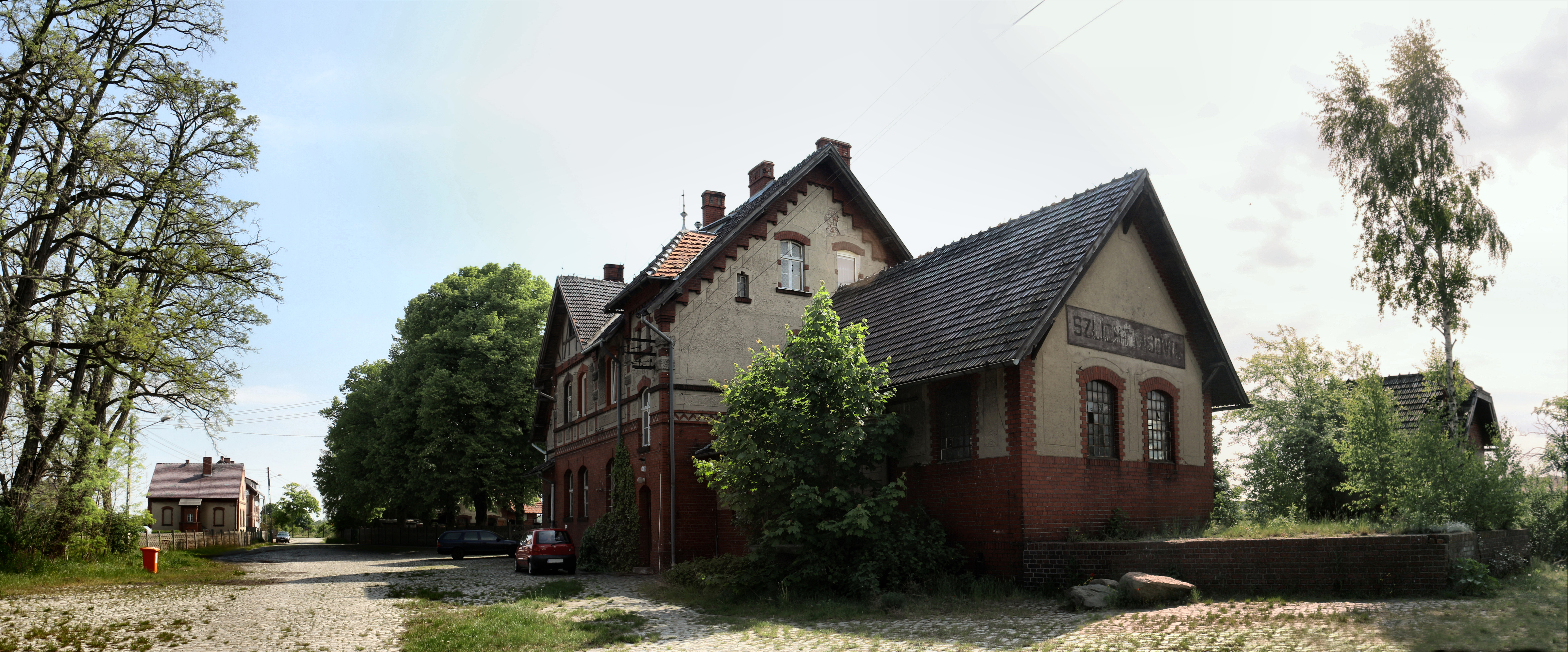 Railway station in Szlichtyngowa